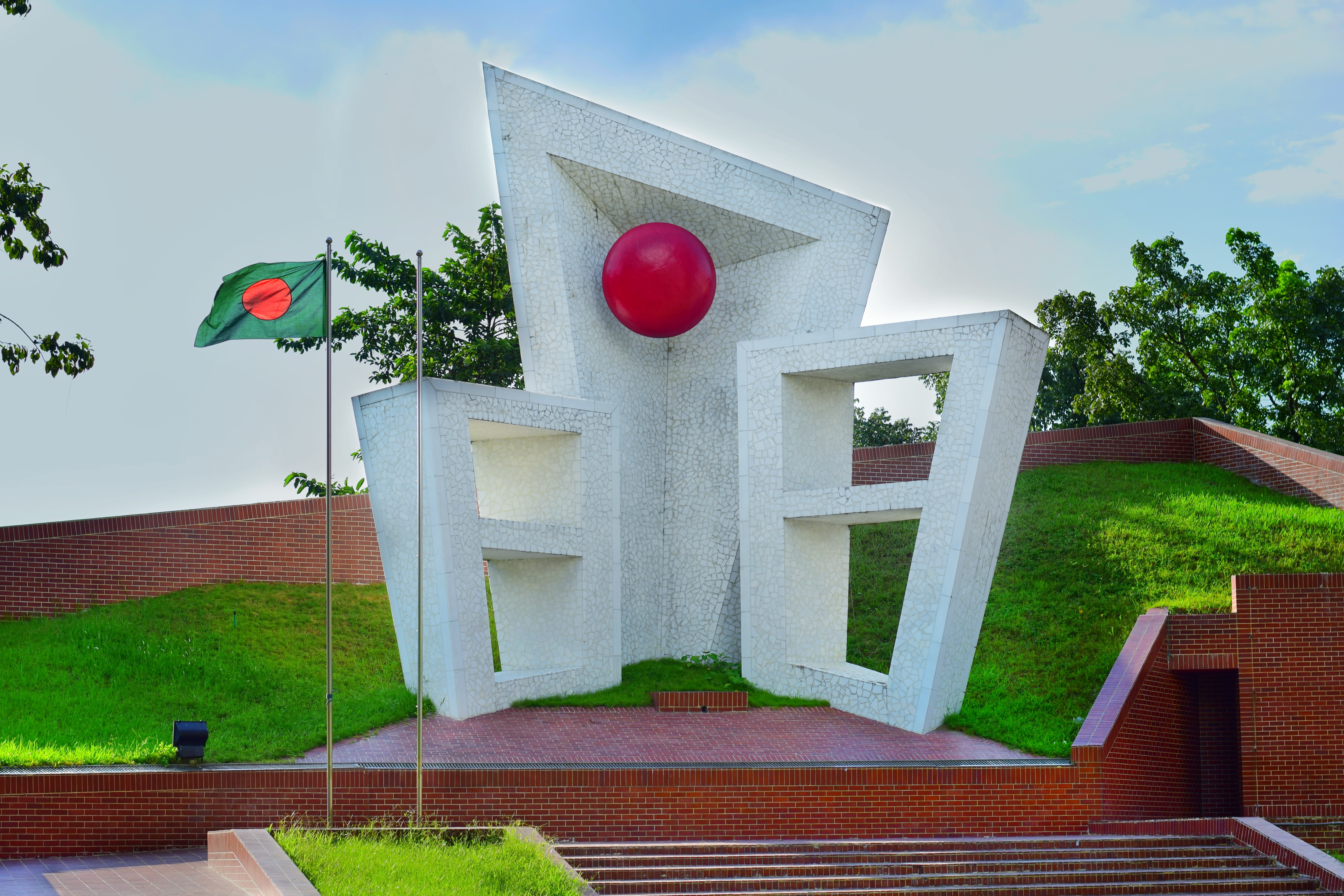 Sylhet central shaheed minar(Central martyr monument,Sylhet) JRRMC 21st